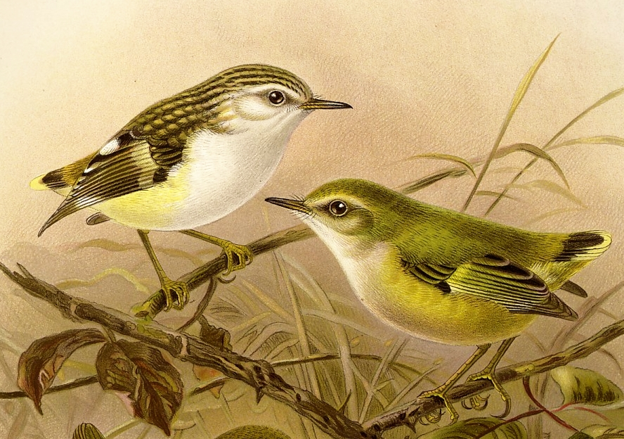 Acanthisitta chloris, Tītitipounamu, Rifleman, female at left and male at right. Endemic to New Zealand.